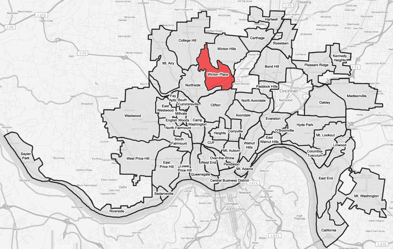 A map of the neighborhood of Winton Place within Cincinnati, Ohio. Neighborhood lines are based on information from This street map is derived from a free map.